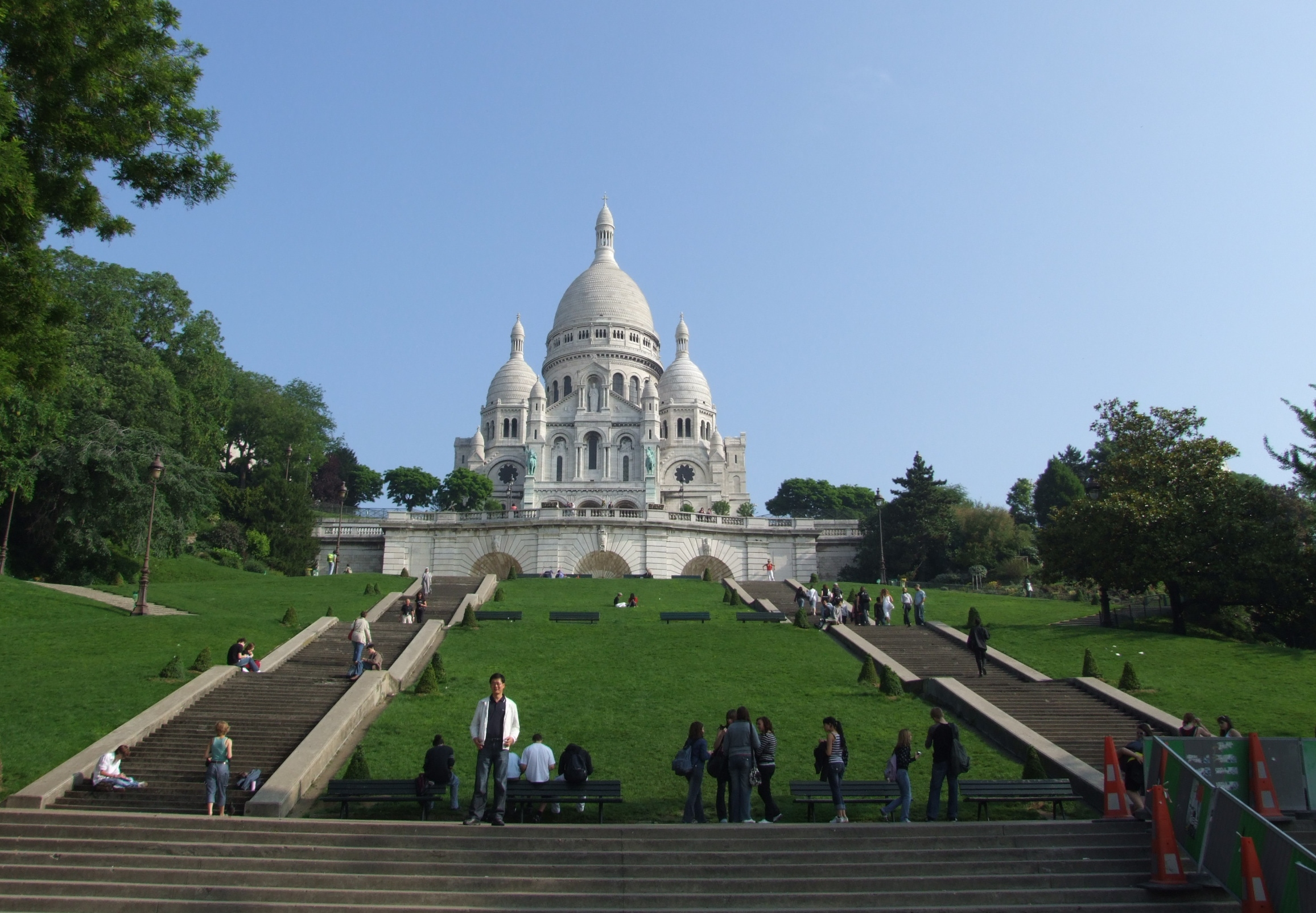 The Basilica of the Sacré Cœur, Paris, FRANCE